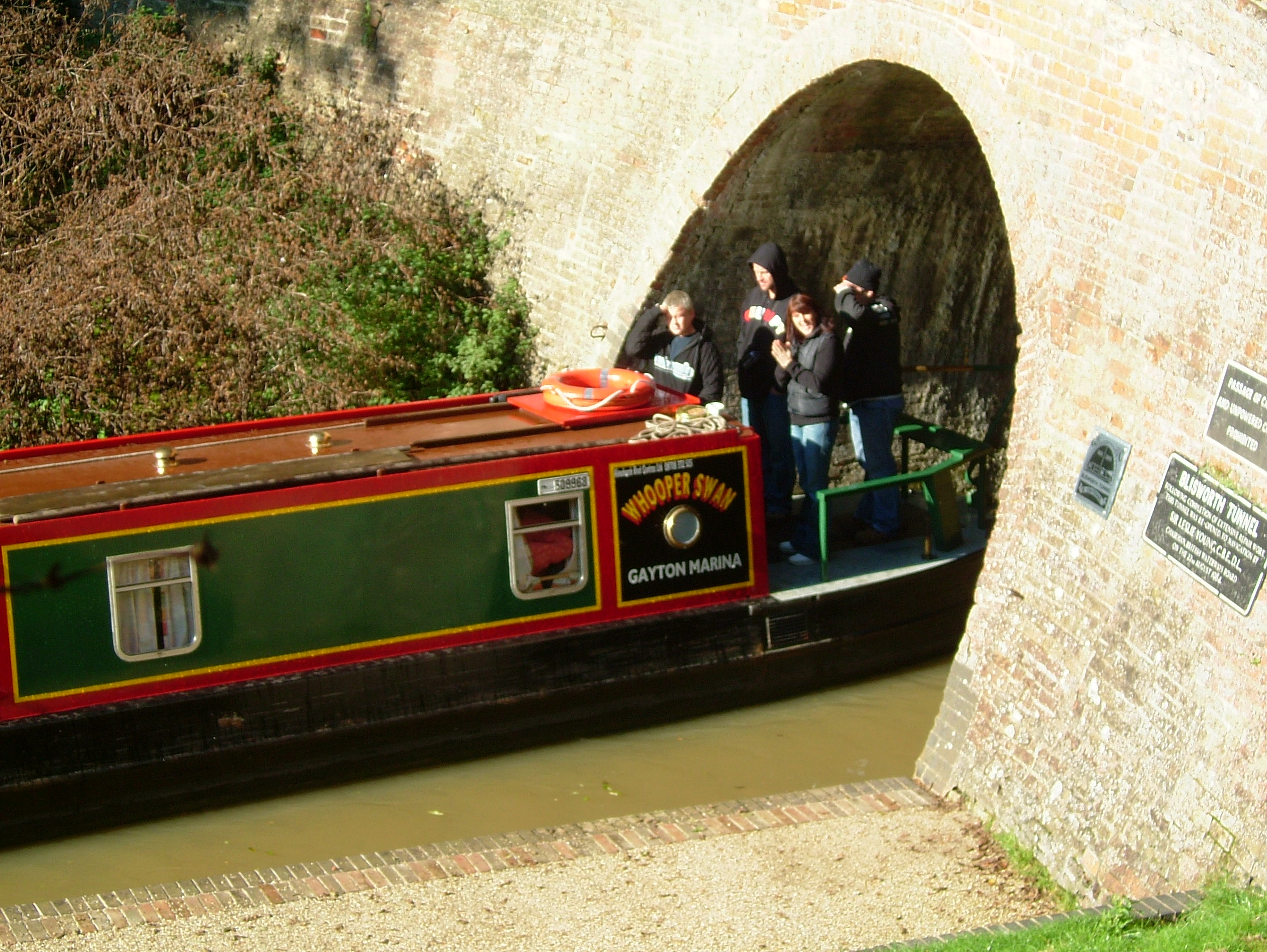 South Portal of the Blisworth Tunnel of the Grand Union Canal which runs from Blisorth to Stoke Bruerne